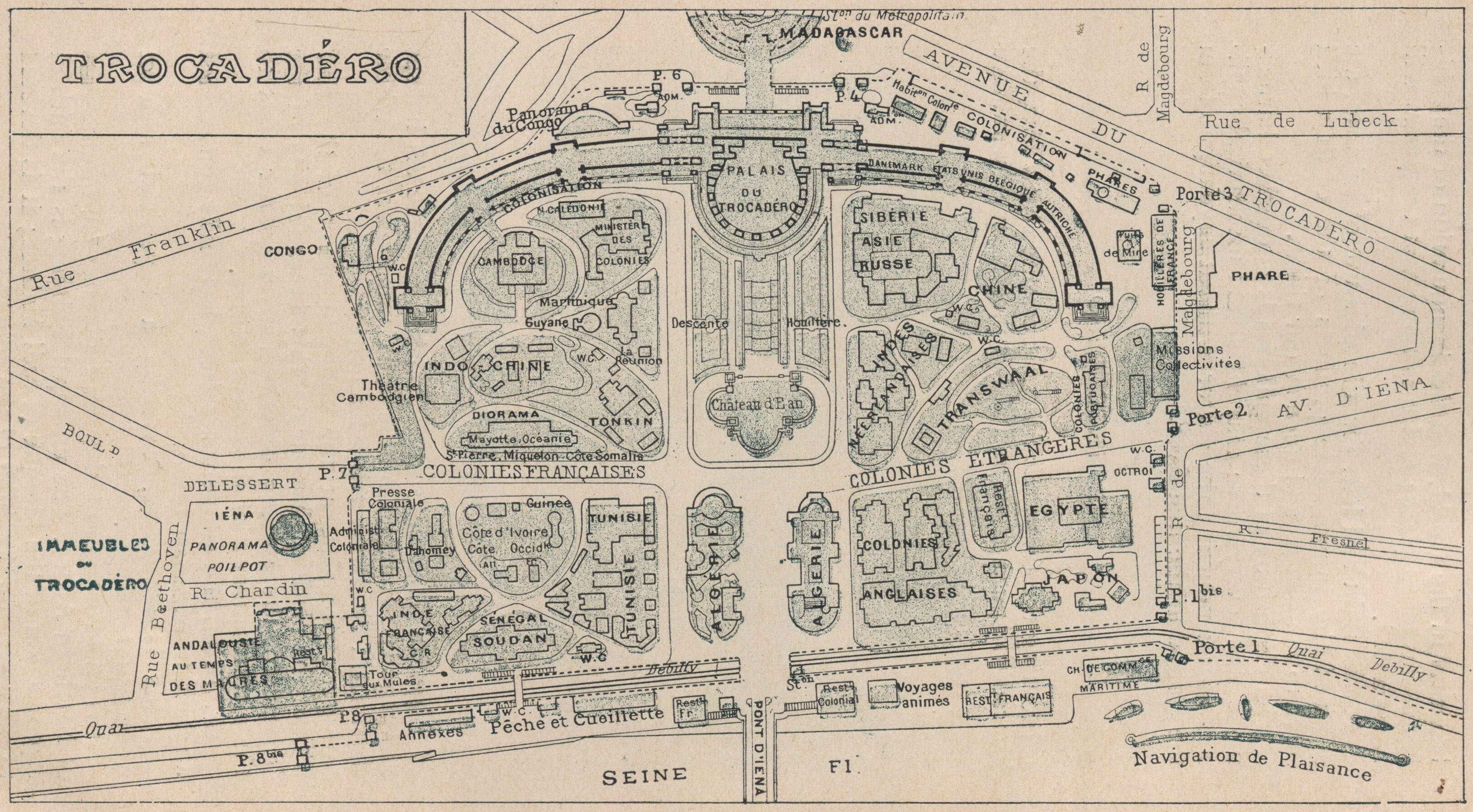 Map of the Trocadéro exhibition site during the 1900 Paris World Fair. The Trocadéro gardens housed most of the colonial exhibits.